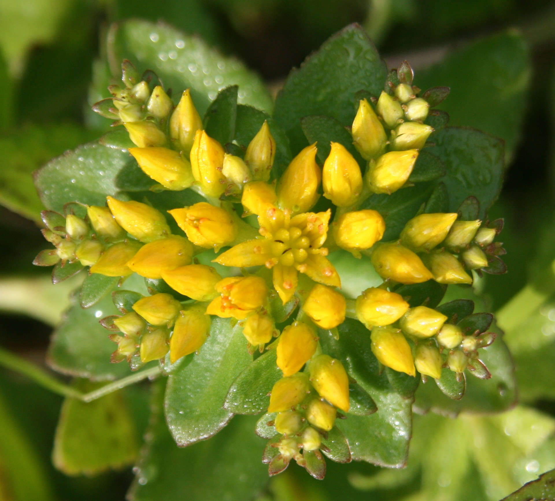 キリンソウの蕾、伊吹山にて